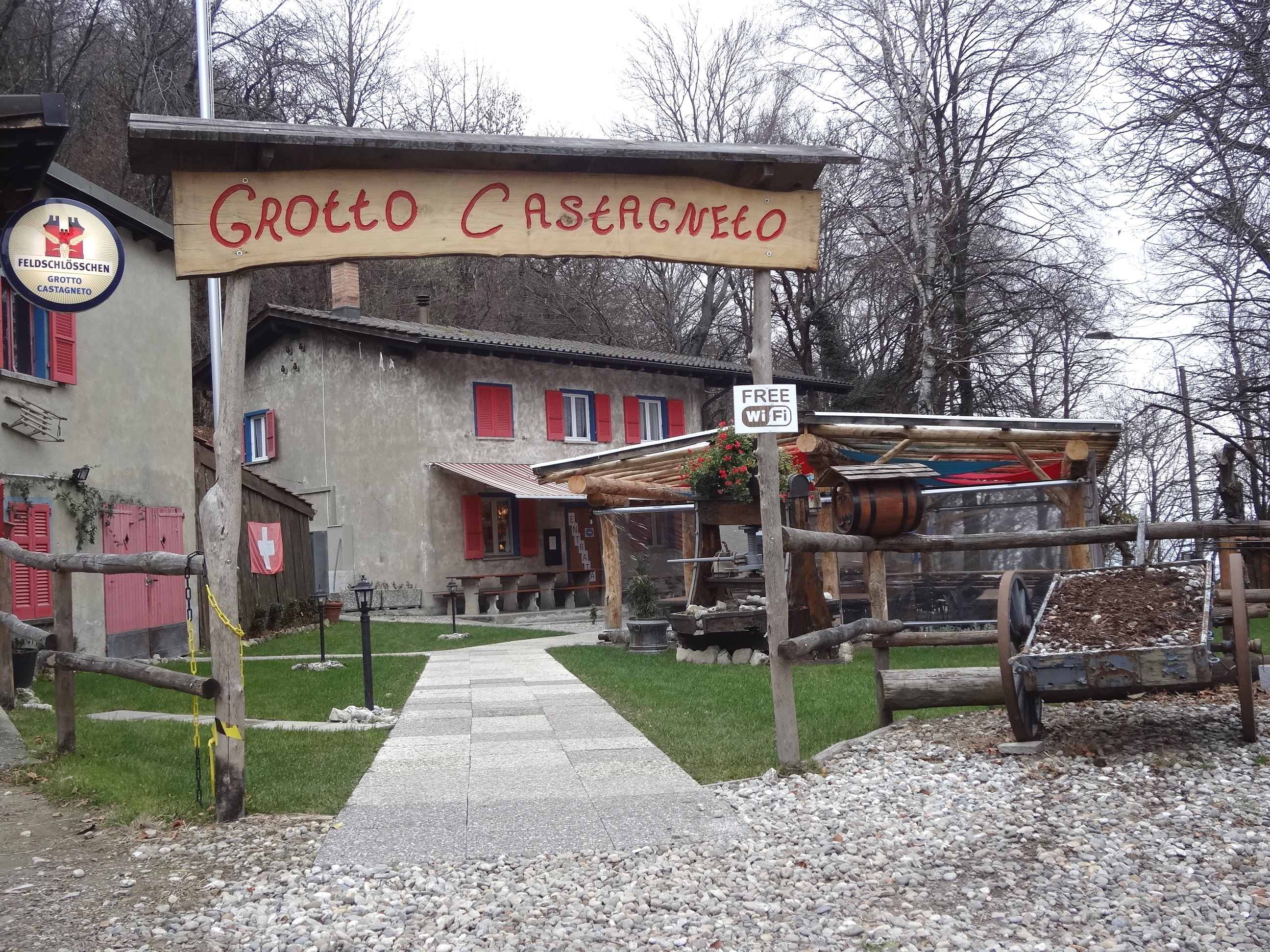 «Grotto Castagneto» (restaurant) in Brè (Ticino)